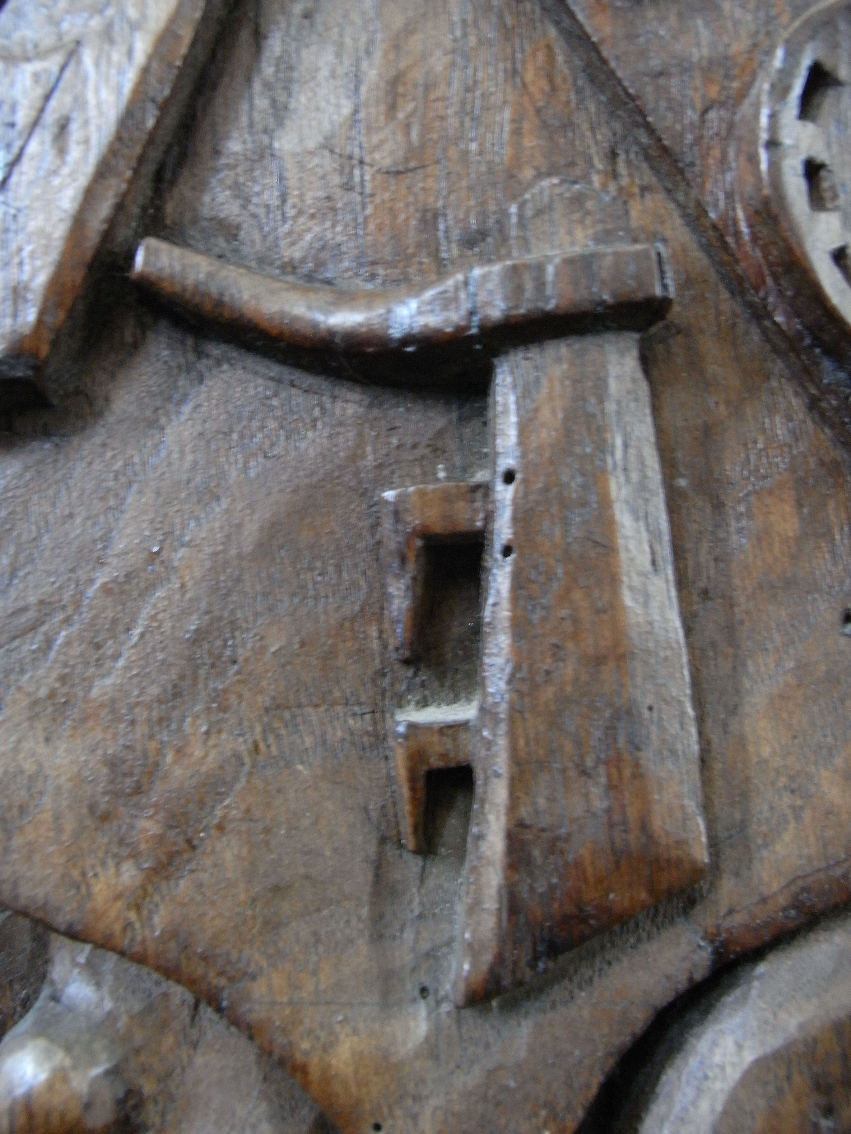 Oak carving of a ship's rudder, 15th.c., from bench ends of Bere Ferrers Church, Devon. This is the heraldic badge of the Cheyne and Willoughby family